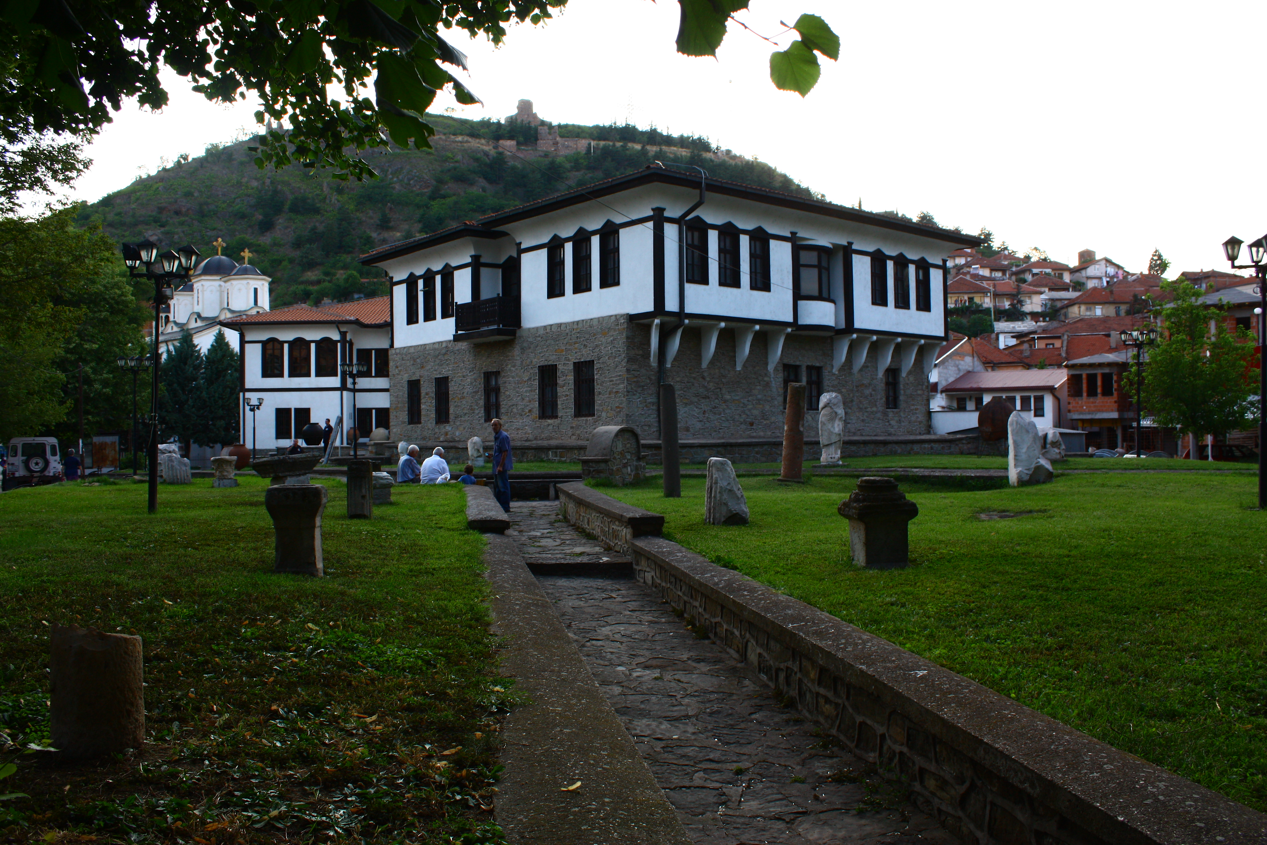 National Museum in Štip, Macedonia